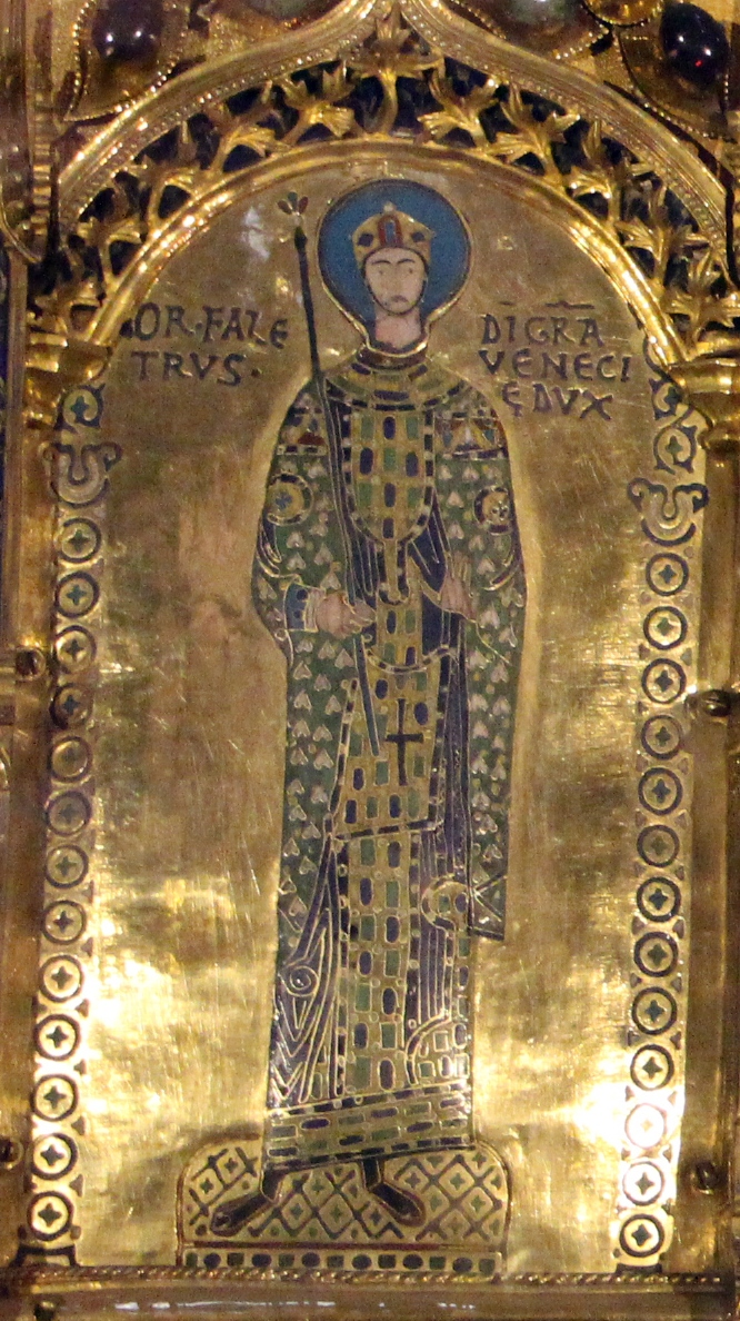 Doge Ordelafo Faliero, from Pala d'Oro, the high altar retable of the Basilica di San Marco in Venice. His image possibly drawn on top of the image of an emperor